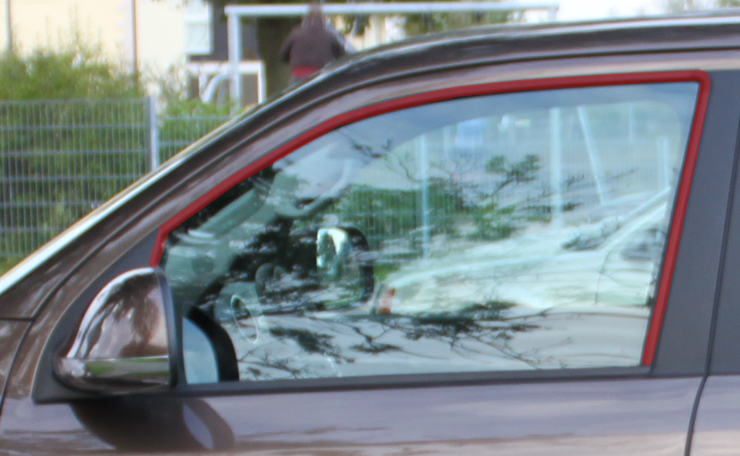 A photo of a truck window with the glass run channels highlighted.